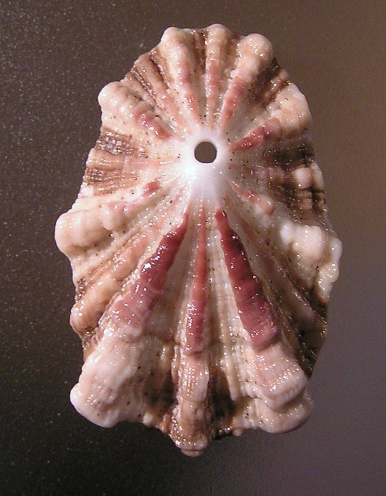 Diodora elizabethae E. A. Smith, 1901, a keyhole limpet from the family Fissurellidae; South Africa